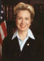 Hillary Clinton, Senate portrait.